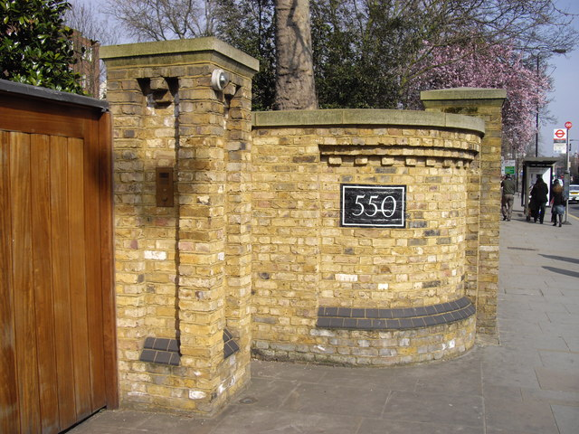 Wall at 550 Kings Road 550 Kings Road is Stanley House, which was renovated in 2002 at a cost of £10 million and has a copy of the Elgin Marbles in a frieze around the drawing room walls.